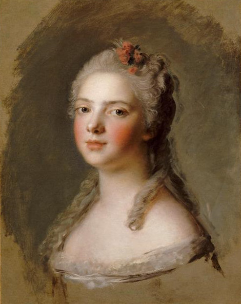 A preparatory study for Madame Marie-Adélaïde de France, The Air, 1751 (now in the Museum of Art of São Paulo).